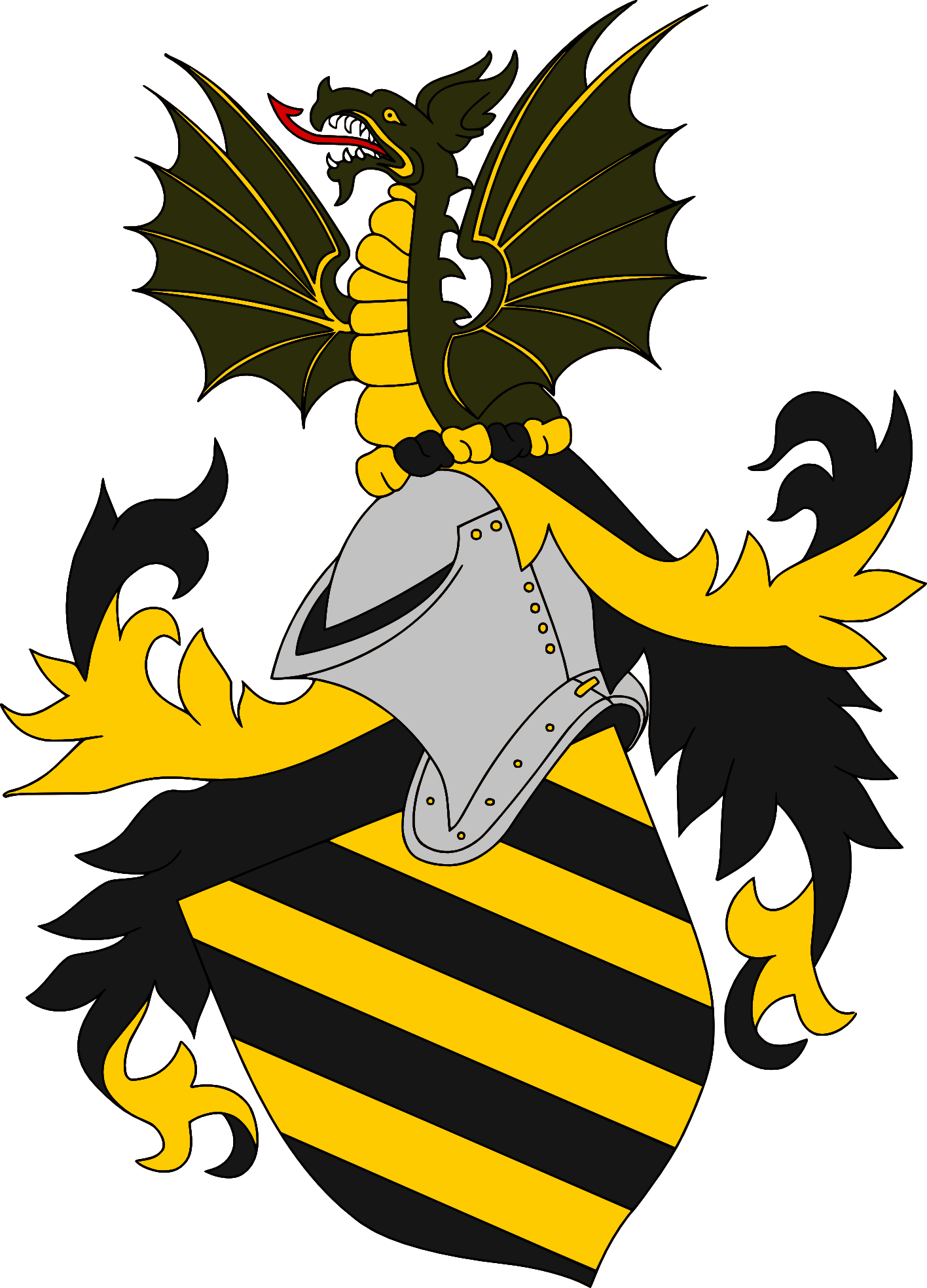 Coat of Amrs of the medieval Dinjičić Family